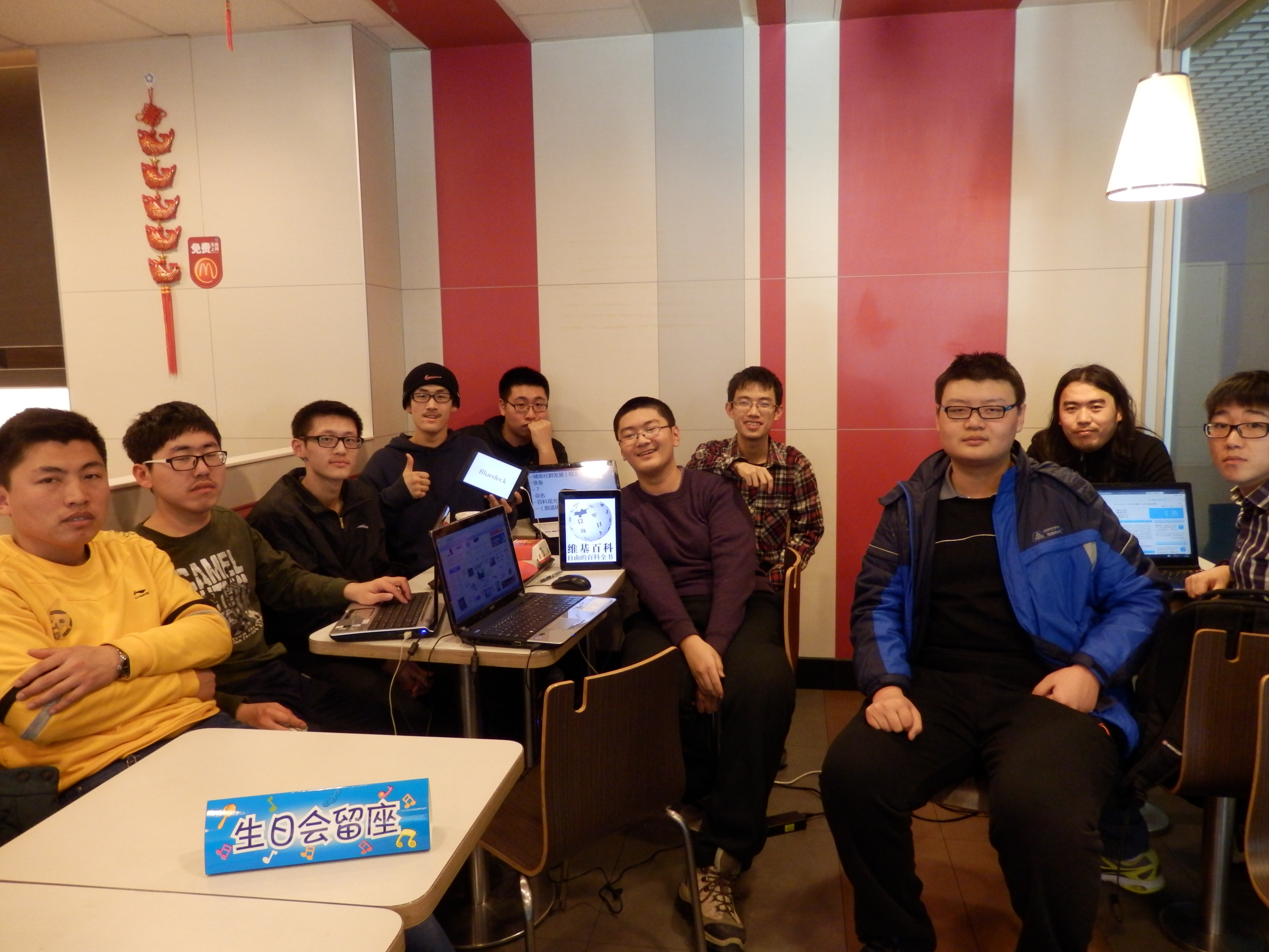 2013 winter break get-together in Dalian